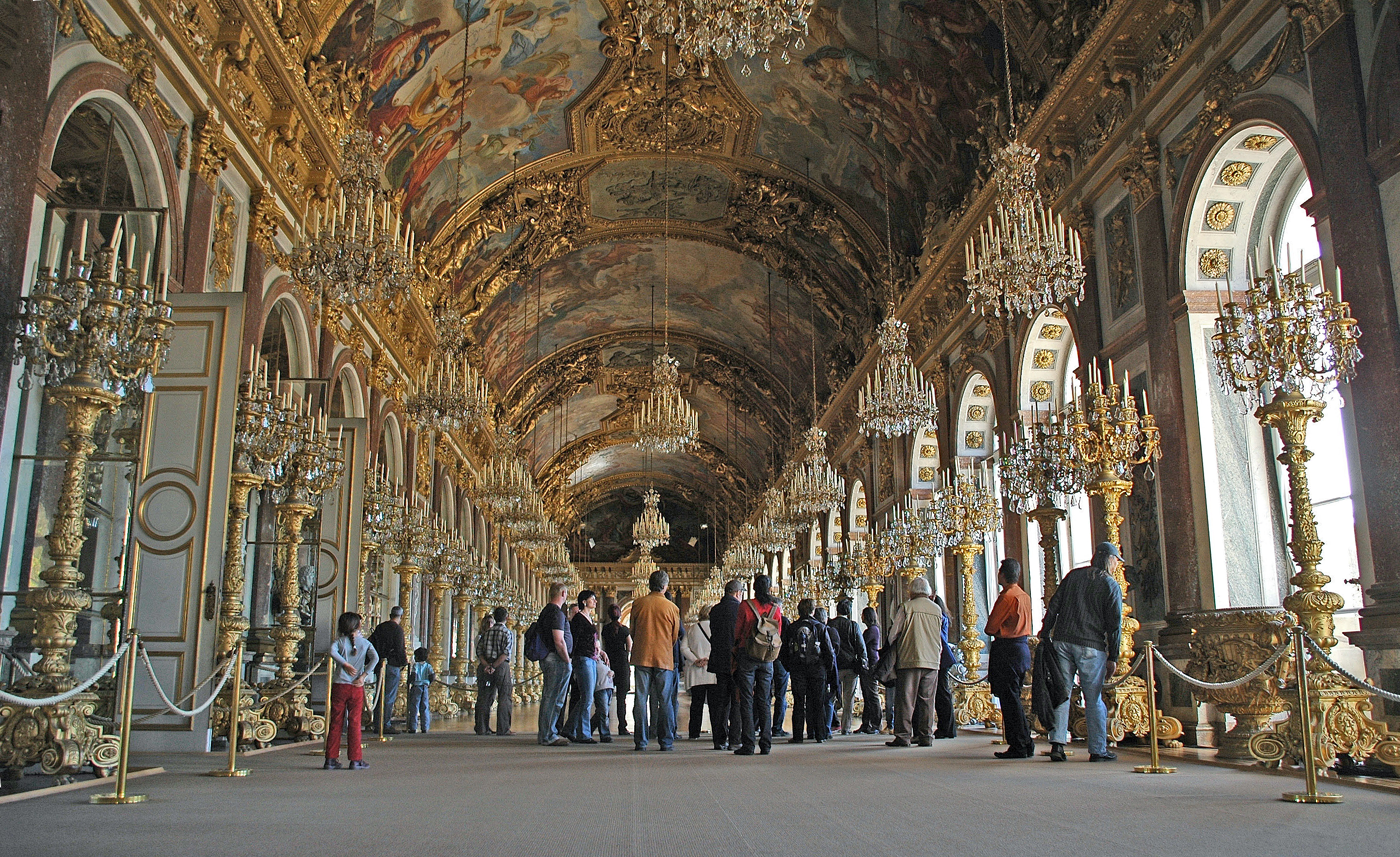 Herrenchiemsee Castle, Gallery